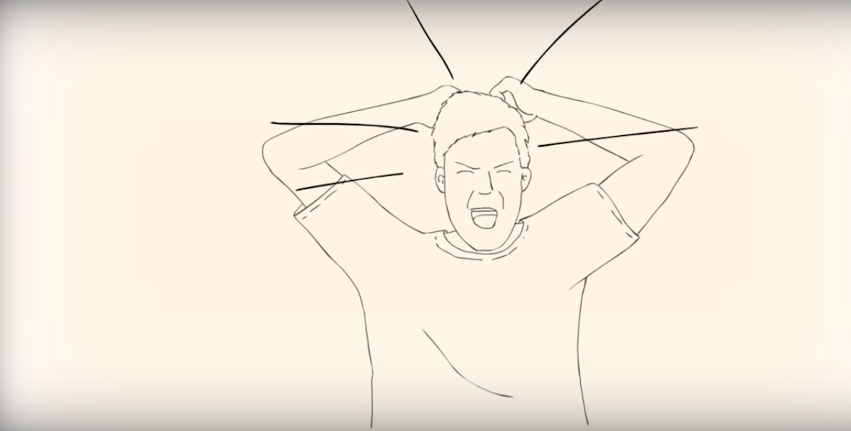 PTSD irritability